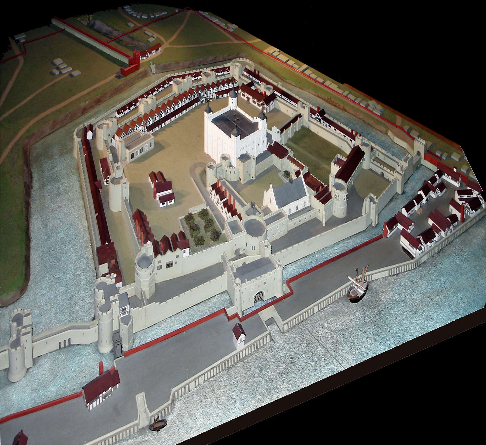 model of the Tower of London